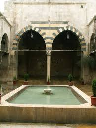 Syria Aleppo Bimaristan Argun